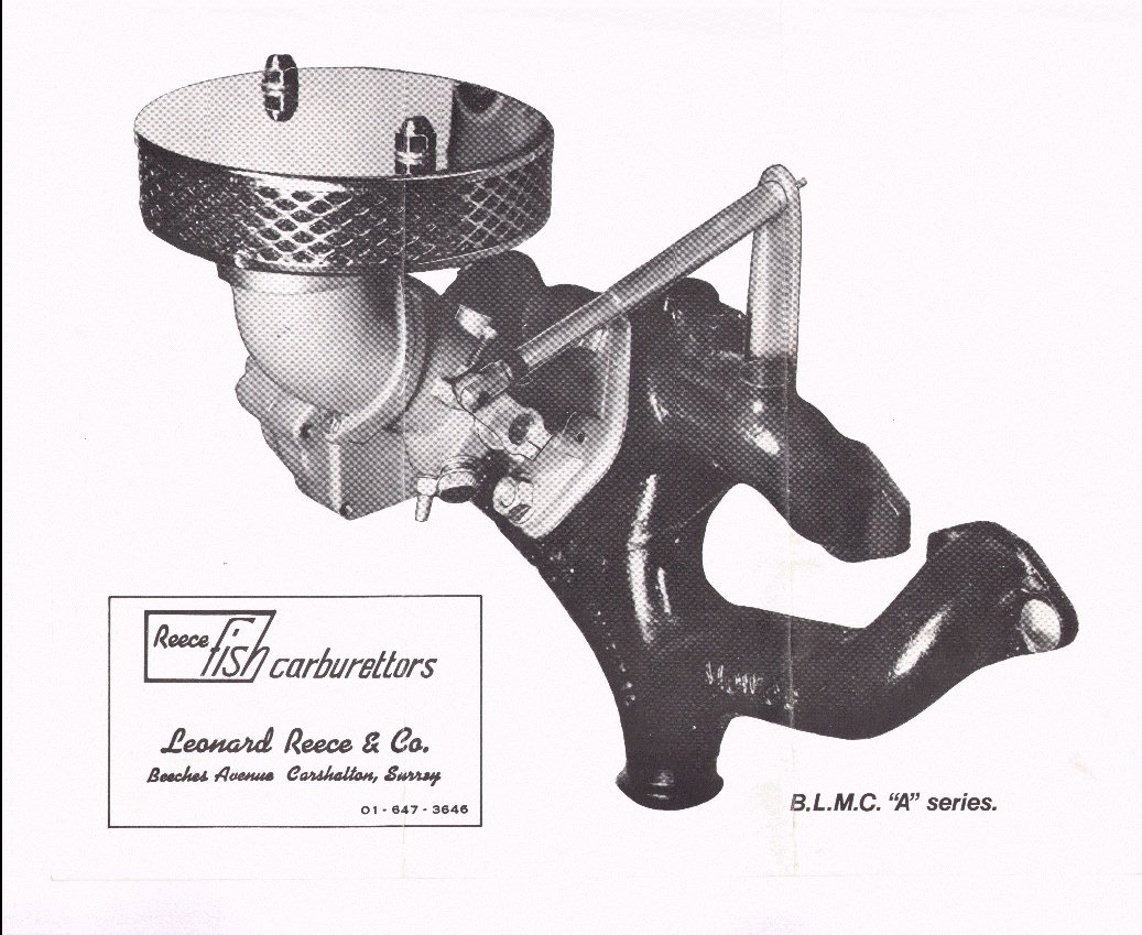 Picture showing Reece Fish carburettor fitted to BMC A series cast steel inlet / exhaust manifold